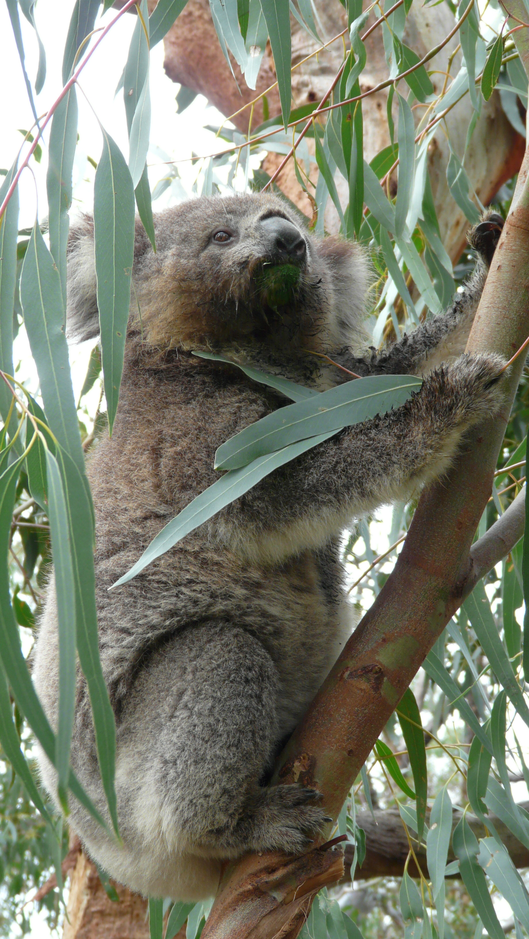 Koala, Phillip Island Koala Conservation Centre